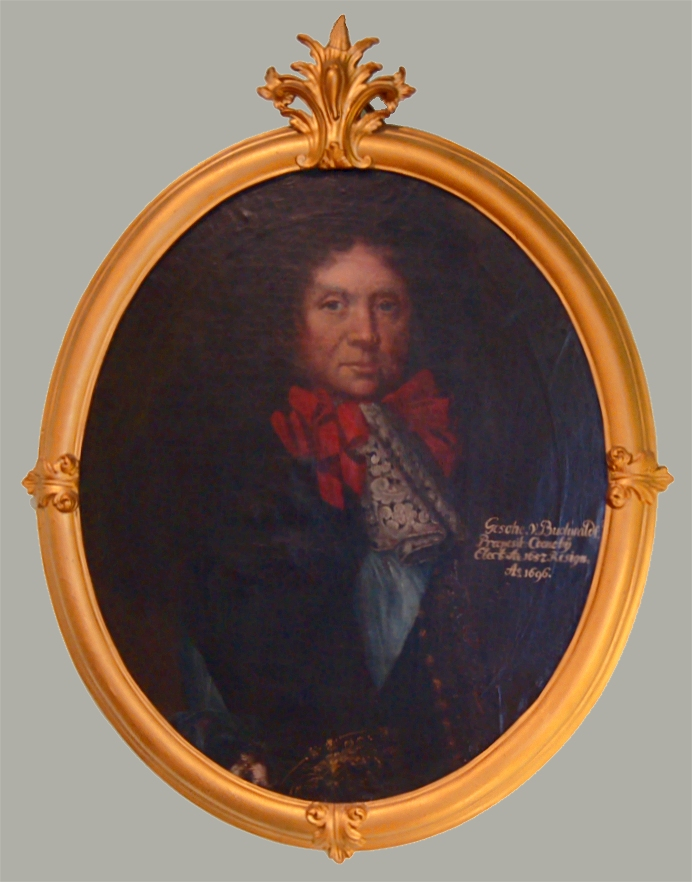 Retouched version of Datei:Gosche von Buchwaldt (1624-1700).jpg, which has the following description